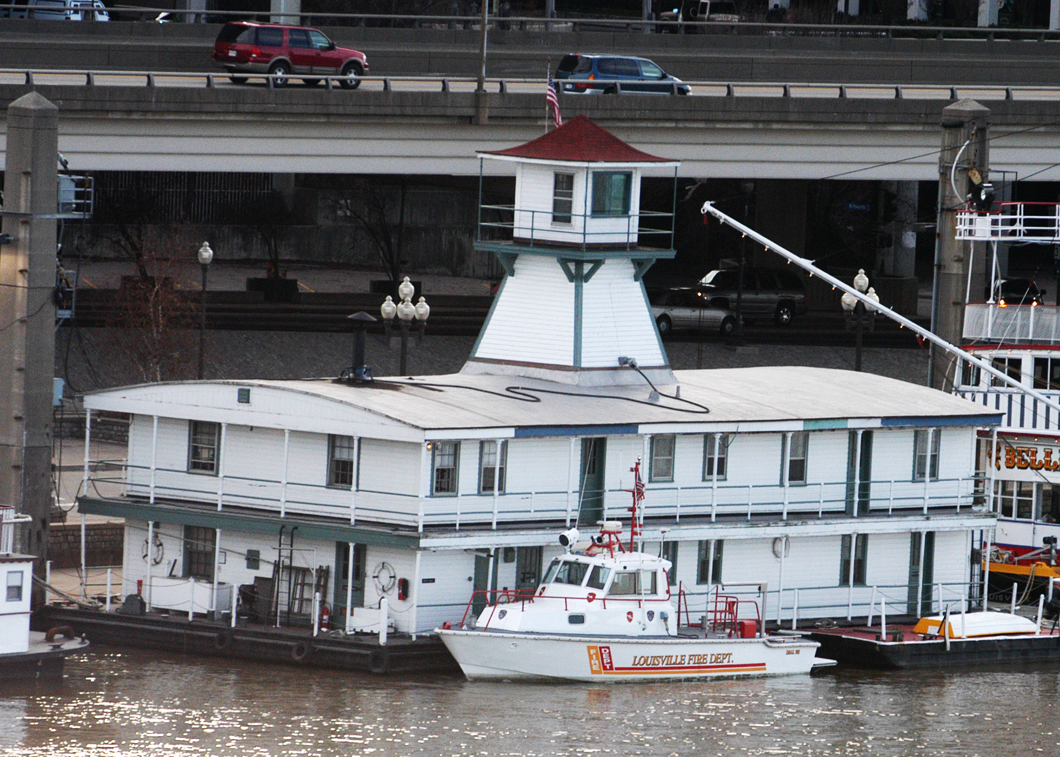 The Mayor Andrew Broaddus as viewed from the river.